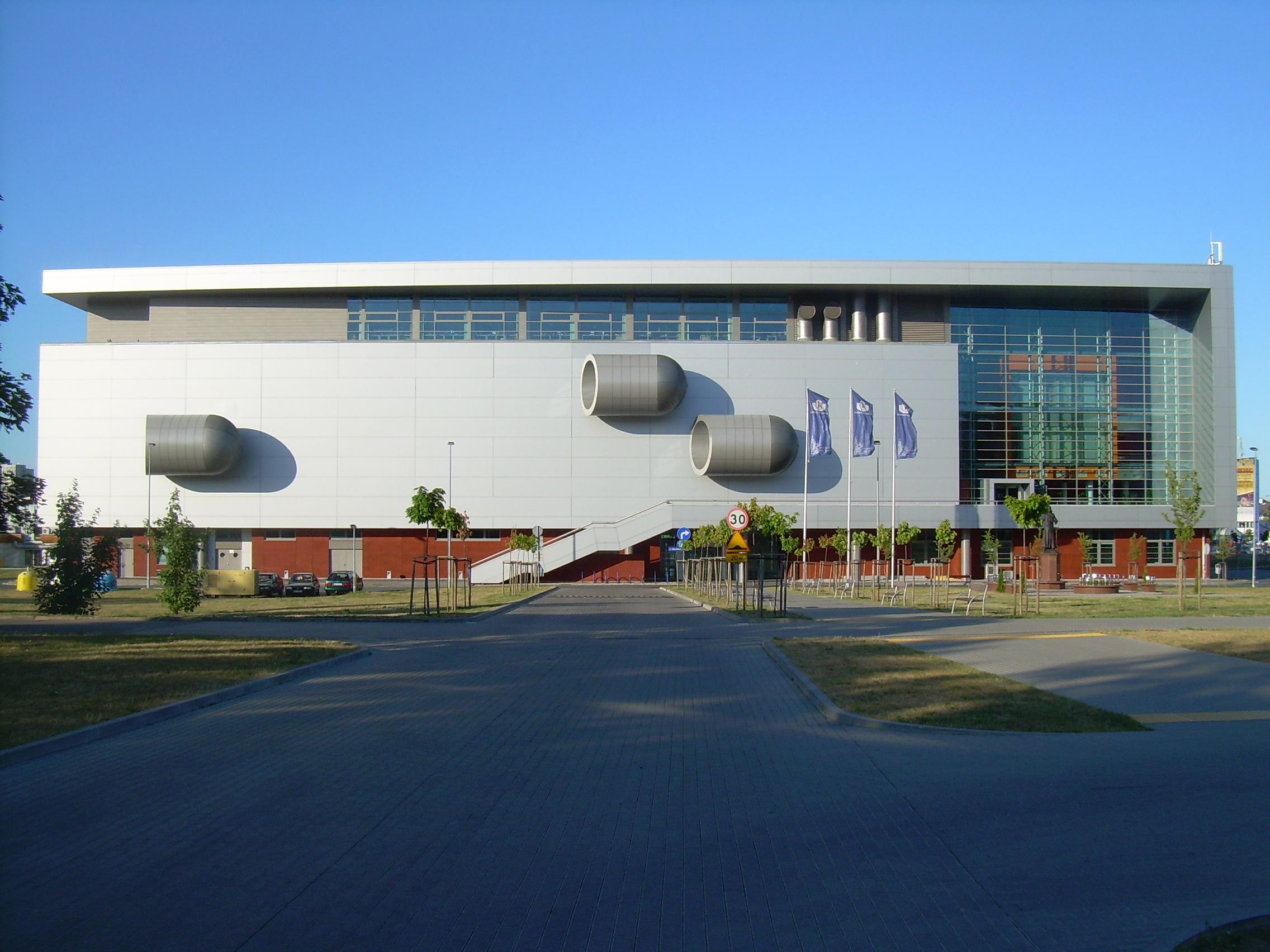 Gdańsk University.